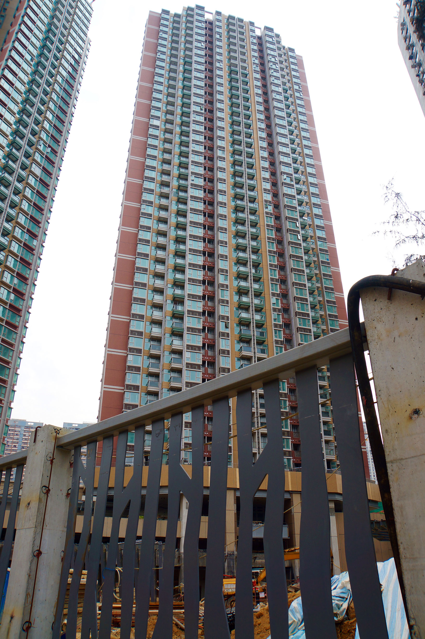 Tower 1 of Greenview Villa in construction